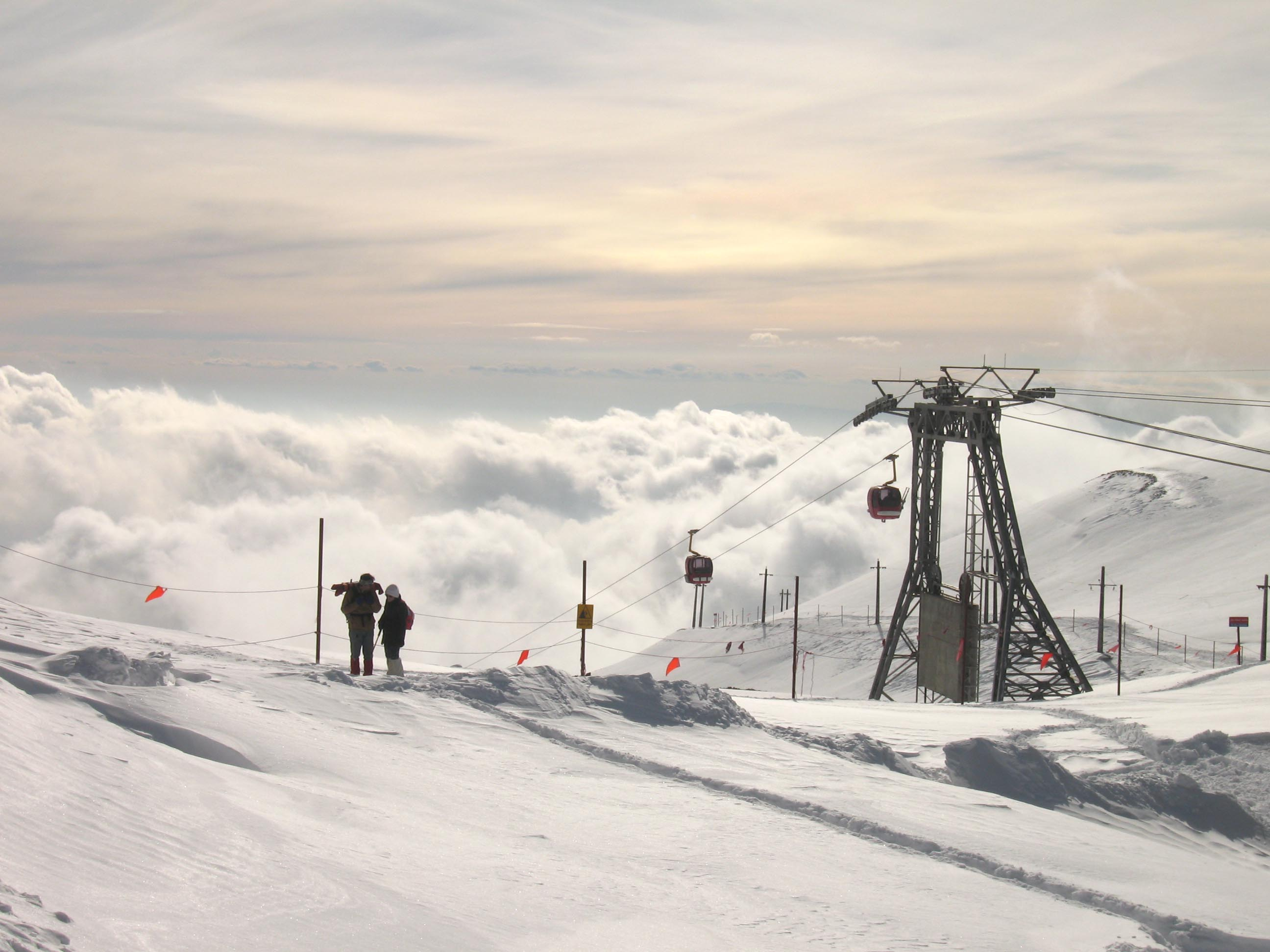 Photo of last telecabin station at Tochal mountain near Tehran Iran. 3,800 meters above sea level.